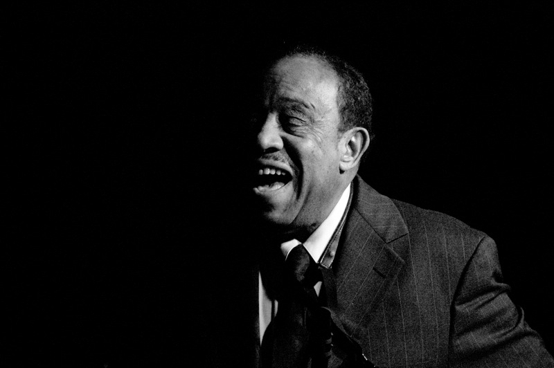 Lou Donaldson checking out a solo